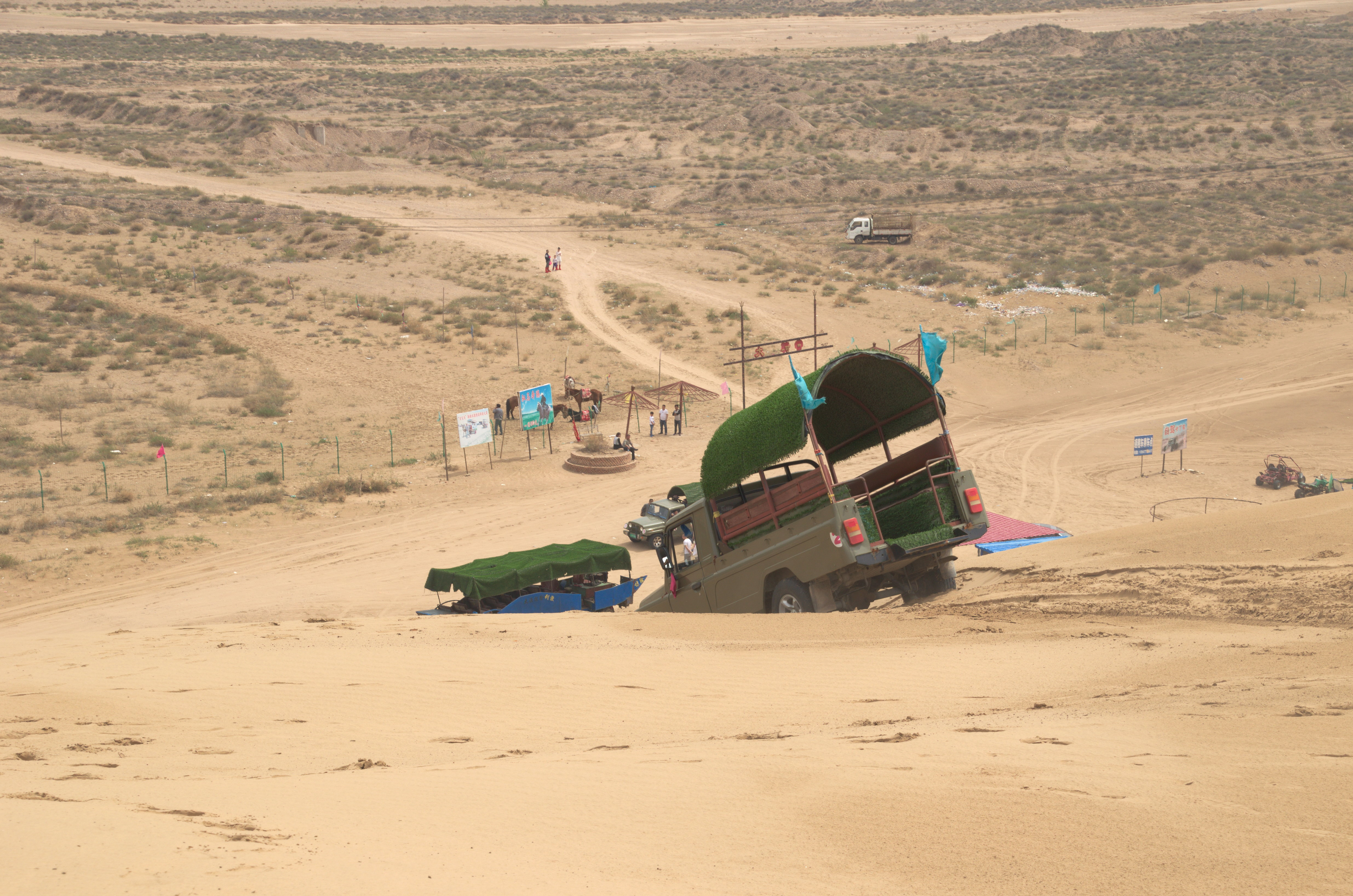 Car going down and out of dunes from Kubuqi desert.